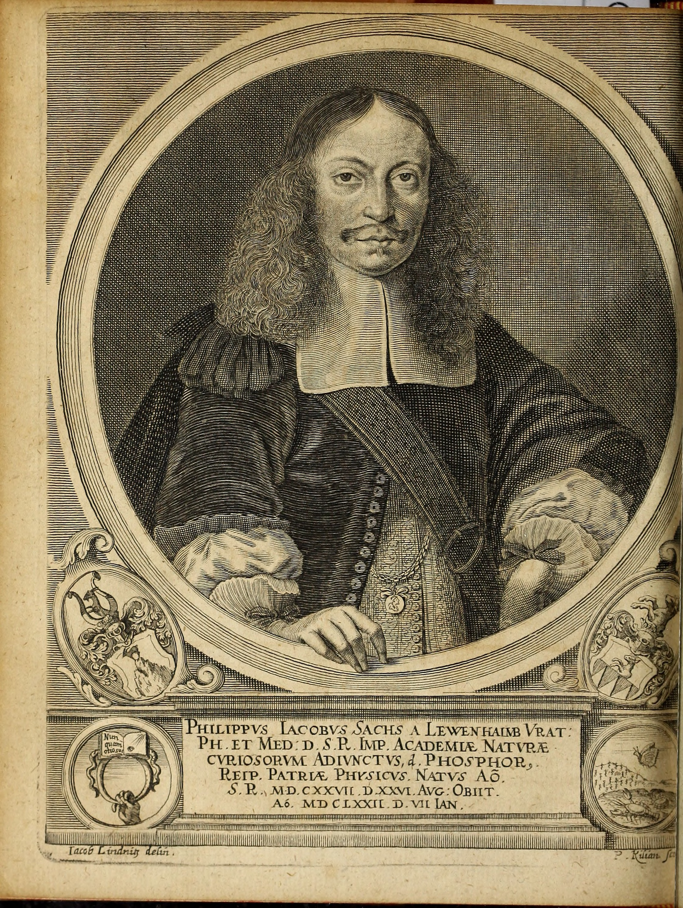 Title: Miscellanea Curiosa Medico-Physica Academiae Naturae Curiosorum Year: 1676 (1670s) Authors: Academia Caesarea Leopoldino-Carolina Germanica Naturae Curiosorum Subjects: Publisher: Lipsiae Text Appearing Before Image: ' Text Appearing After Image: MEMORIA SACHSIANA, IMPER.IALINATUR^E CUR.IOSOE.UM SOCIETATI, POSTERIS COMMENDATA,KILLE HOLSATORUM A I. D. M. D. LlPSlM, Sumptibus Joh. FritschLM DC iXXY.